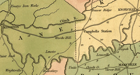 Detail of an 1839 map of postal routes in Tennessee, showing the Kingston road and vicinity. "Campbells Station" is modern Farragut, "Lenoirs" is modern Lenoir City, and "Blairsferry" is modern Loudon. The road labelled "15" corresponds to modern Kingston Pike (US-70/US11). The road labelled "9" and "6" corresponds to modern US-11. The road labelled "8" and "18" corresponds to modern US-70. Originally published in The American Atlas (London: J. Arrowsmith, 1839).